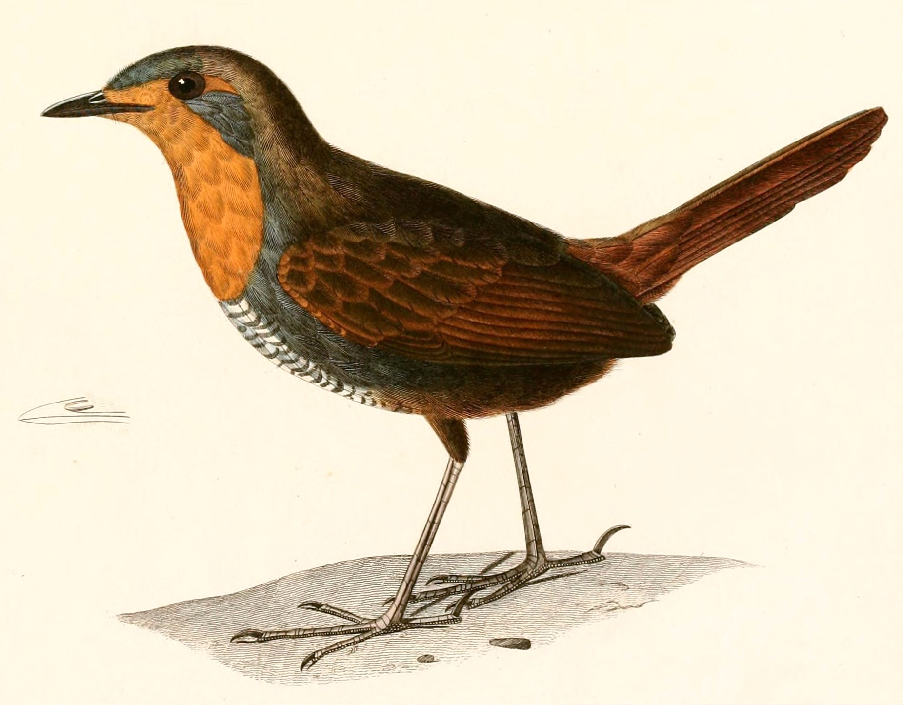 « Megalonix rufogularis » = Scelorchilus rubecula rubecula (Subspecies of Chucao Tapaculo)